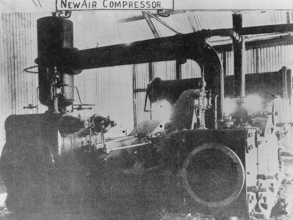 Compressor in the smelting works at Mount Elliott, Selwyn, Queensland, 1909. New compressor in the smelting works at Mount Elliott, 1909. Mount Elliott was renamed Selwyn in 1907.